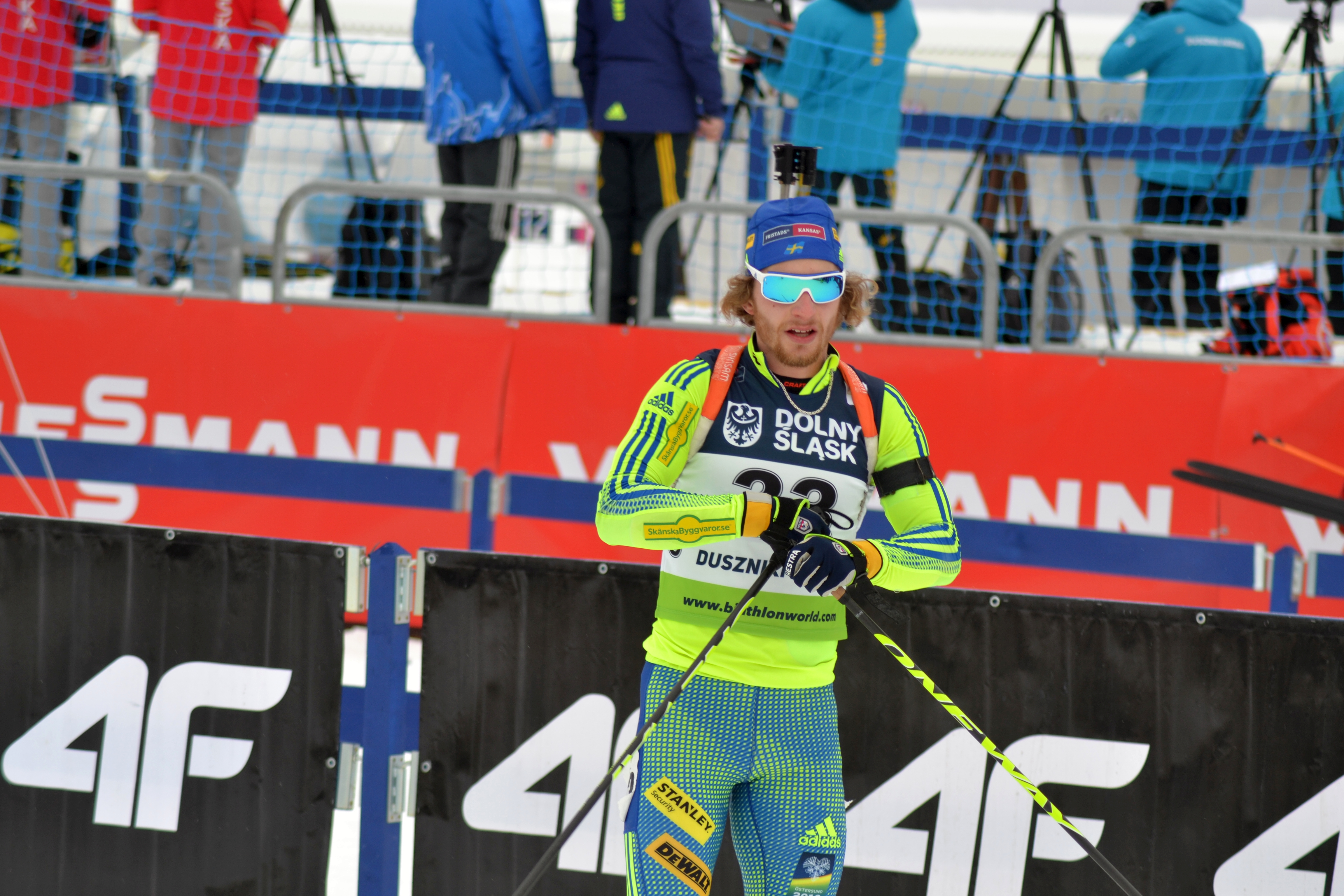 Open European Championships Biathlon 2017, Individual Men's race, held on January 25th.